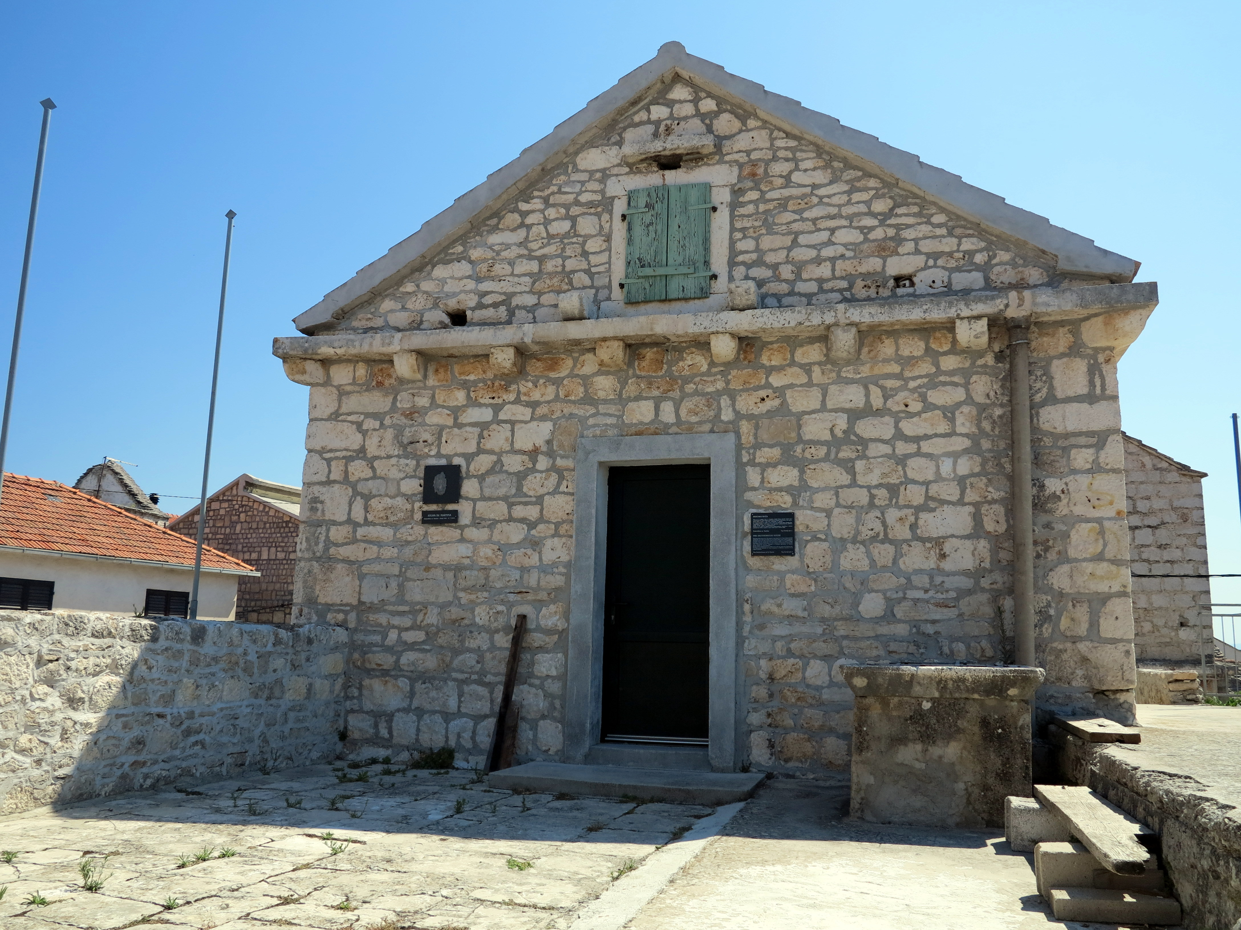 Donje Selo on the island Šolta / Croatia / Adriatic Sea. View to the west.